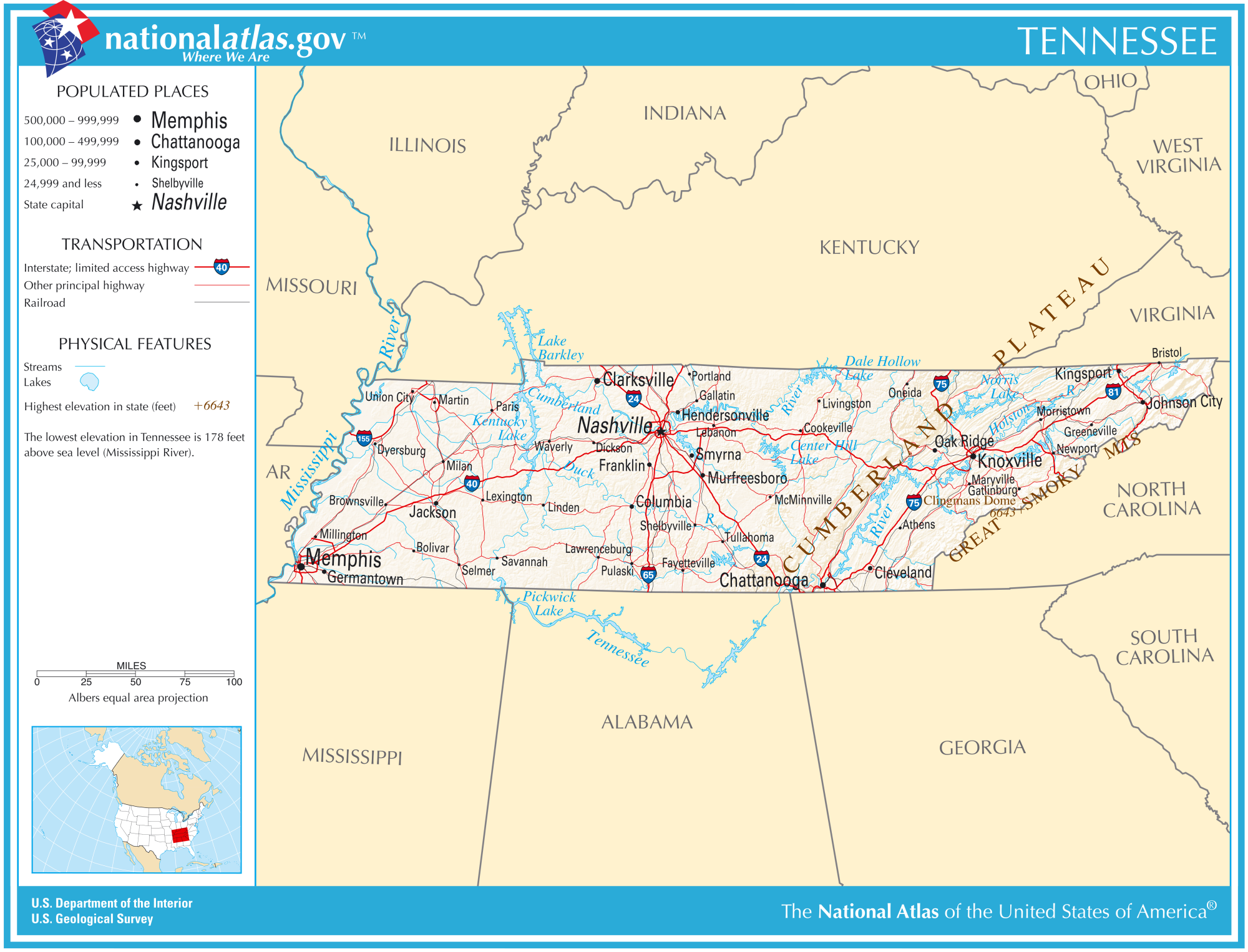 Reference map of Tennessee from the U.S. National Atlas.